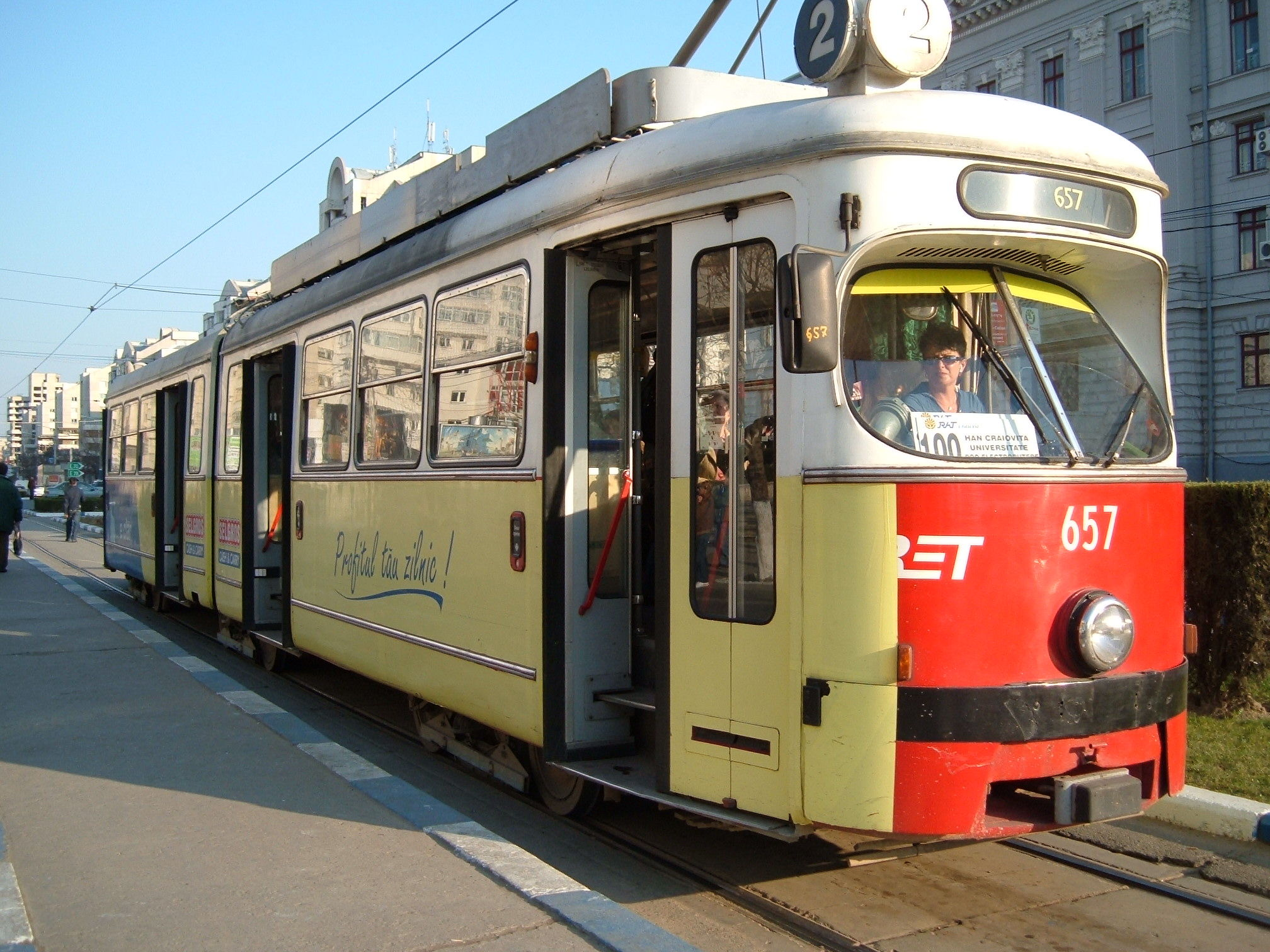 Tram SGP on line 100 in Craiova originally coming from Vienna.